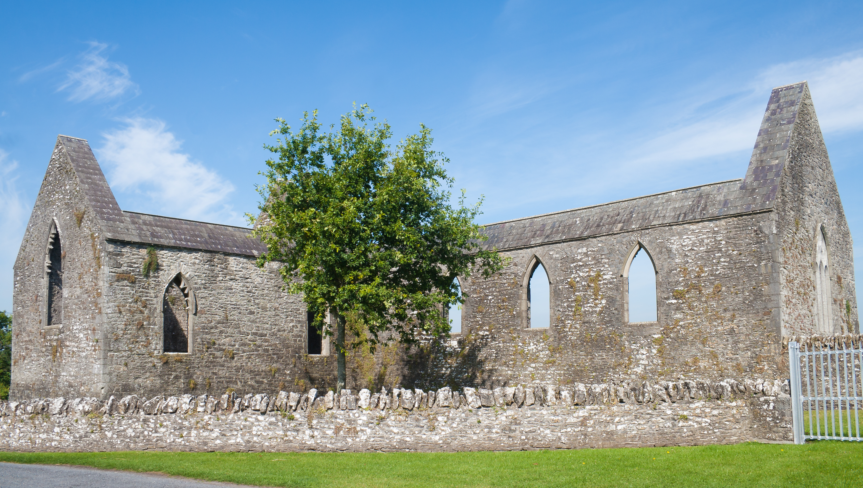 South-east view of the Dominican Priory of St. Canice in Aghaboe with O'Foelain's Chapel on the south side (left) and the aisleless church (right), 15th century. The Gothic tracery of the windows were removed in 1773.